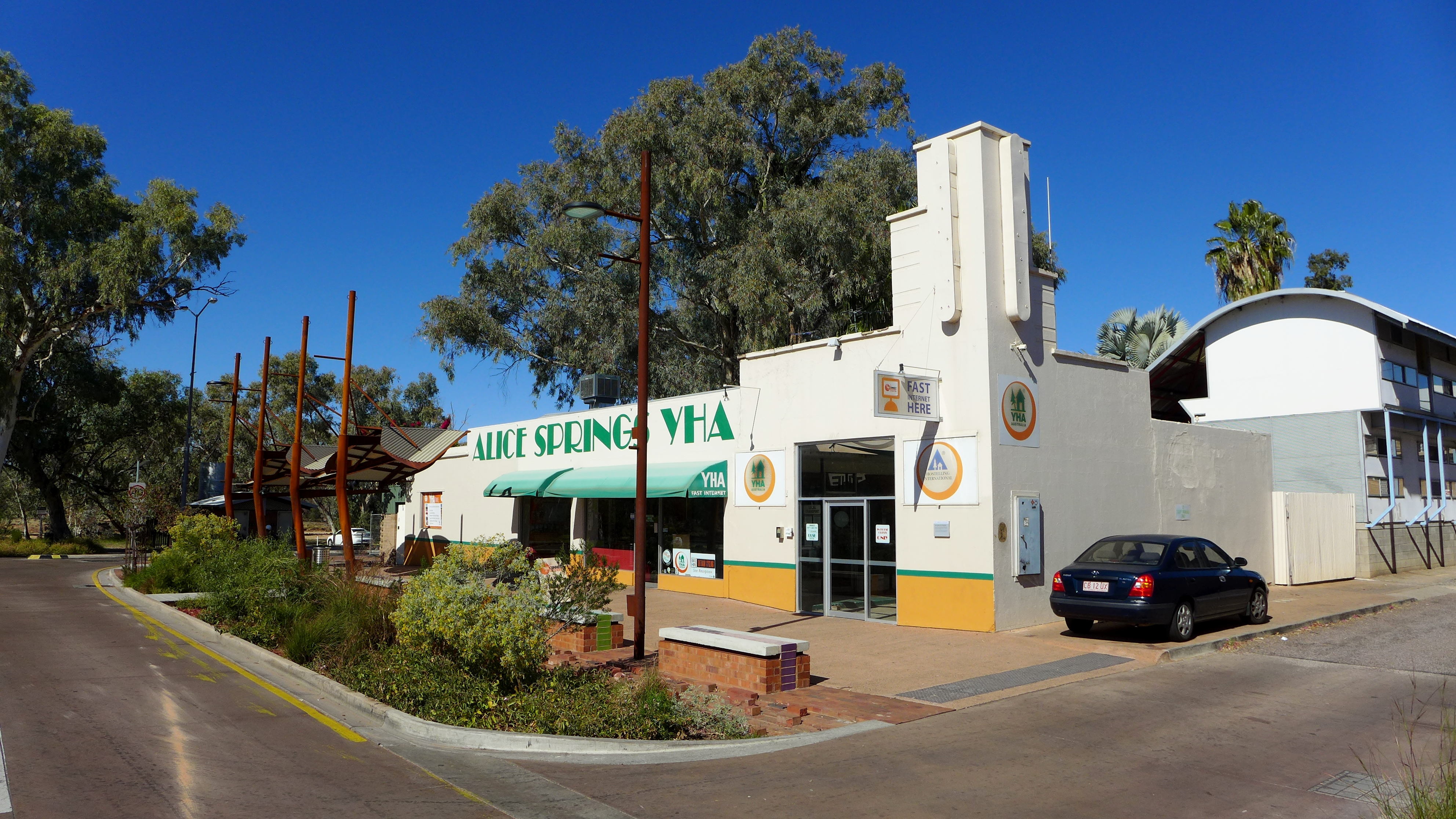 View of Alice Springs YHA hostel, Alice Springs, Australia.